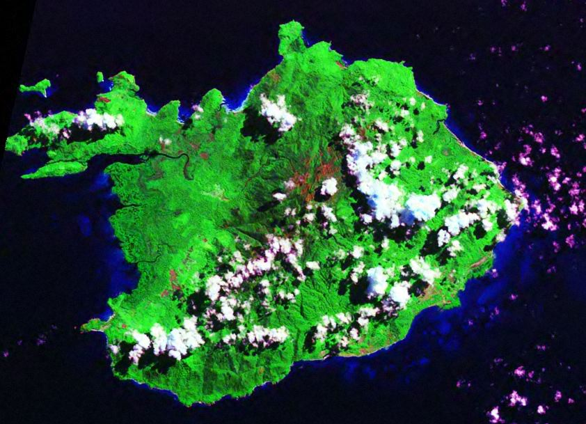 Karimata island, Indonesia; MrSID image from NASA's zulu server of Landsat images of the entire world. Island ca. 20 km across (E-W).